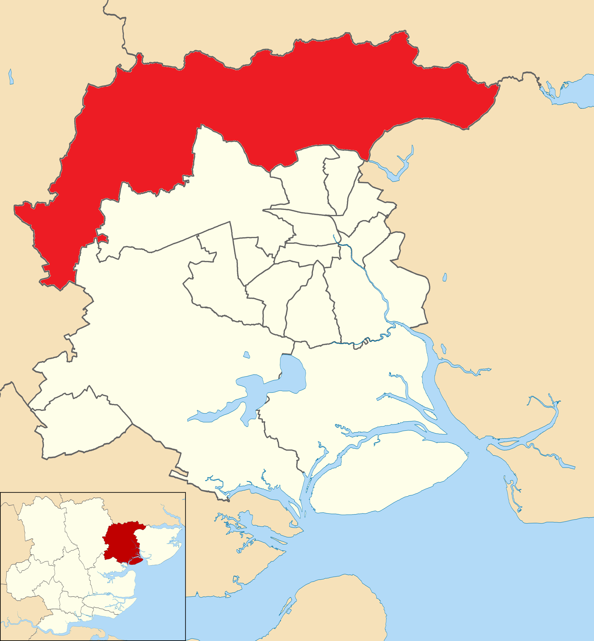 Rural North ward highlighted within Colchester Borough